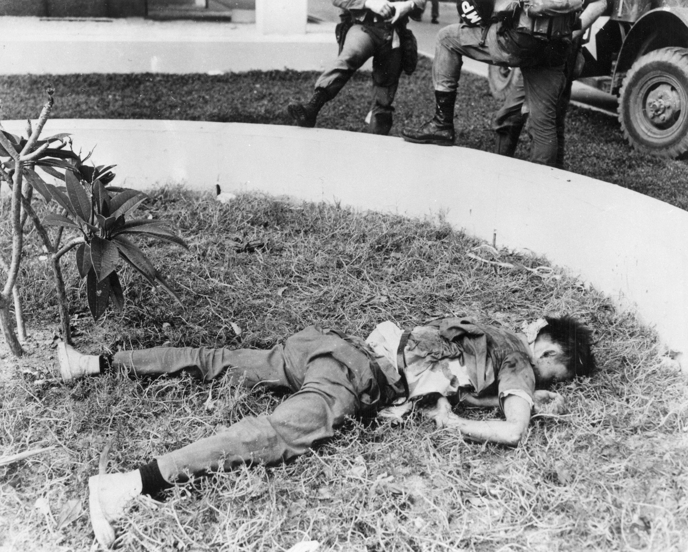 AVSG-S-1031-78/AGA68 RVN Saigon A dead Viet Cong lies on the grounds of the U.S. Embassy in Saigon.